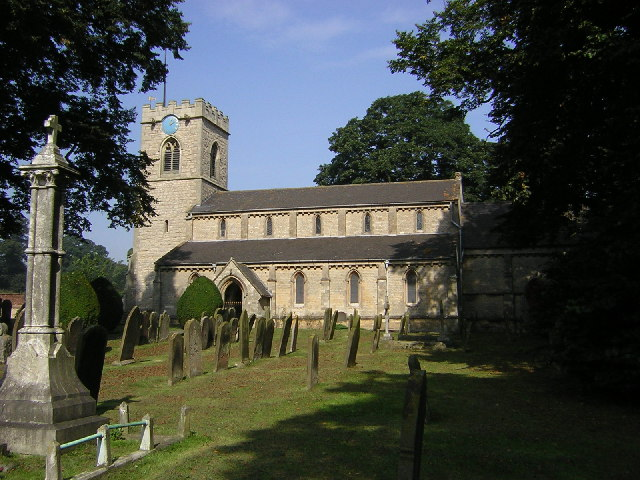 St Hybald's parish church, Scawby, Lincolnshire, seen from the south